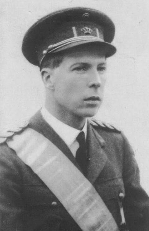 His Royal Highness Charles Théodore Henri Antoine Meinrad of Belgium, Prince of Saxe-Coburg-Gotha, Duke of Saxe, Prince of Belgium, Count of Flanders ° 10 October 1903; †1 June 1983 Prince Regent of Belgium from 20 September 1944 to 20 July 1950 The prince wears the uniform of a colonel in the Belgian Army, decorated with the Grand Cordon of the Order of Leopold